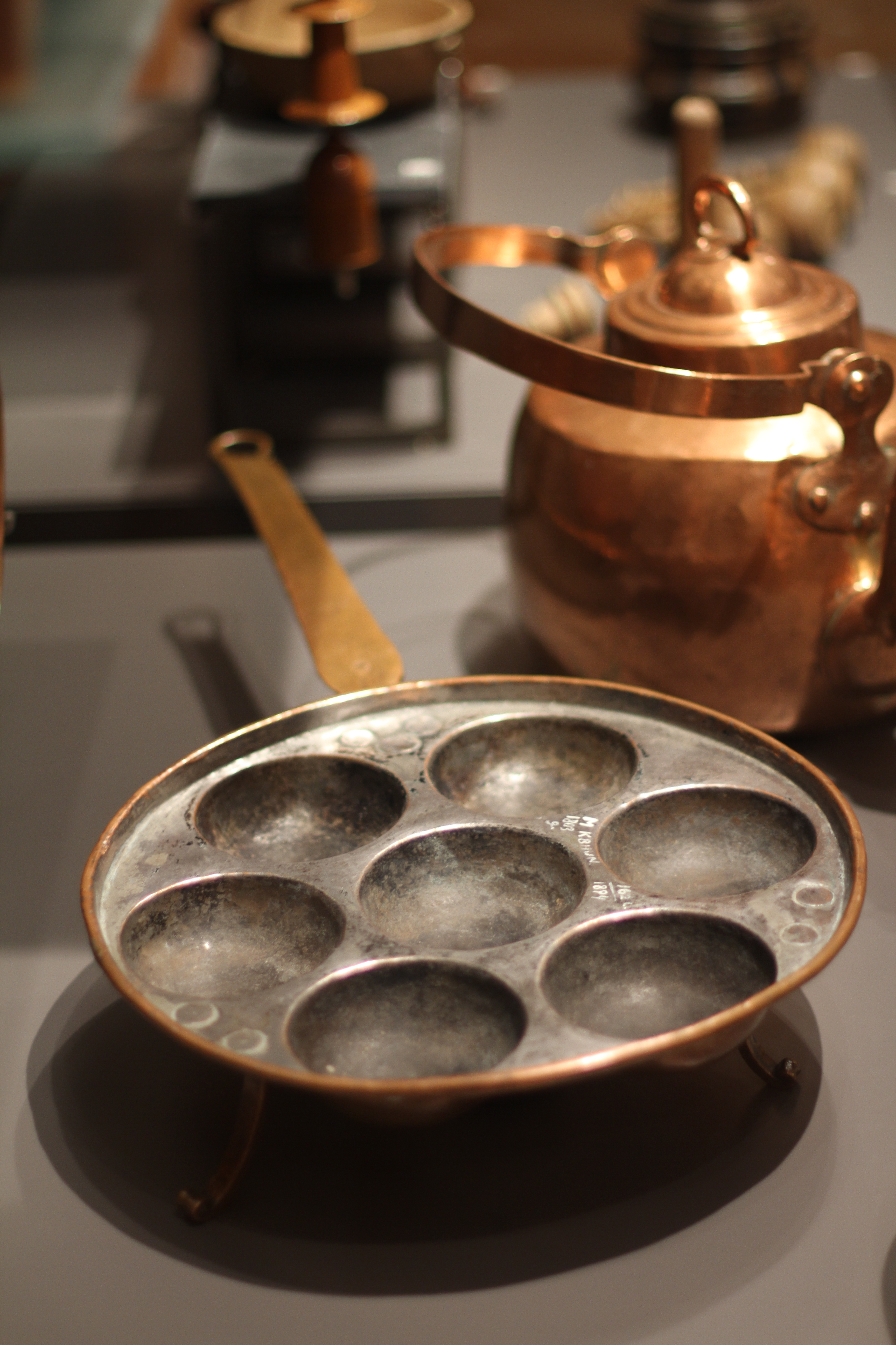 Æbleskive pan at the National Museum of Denmark.